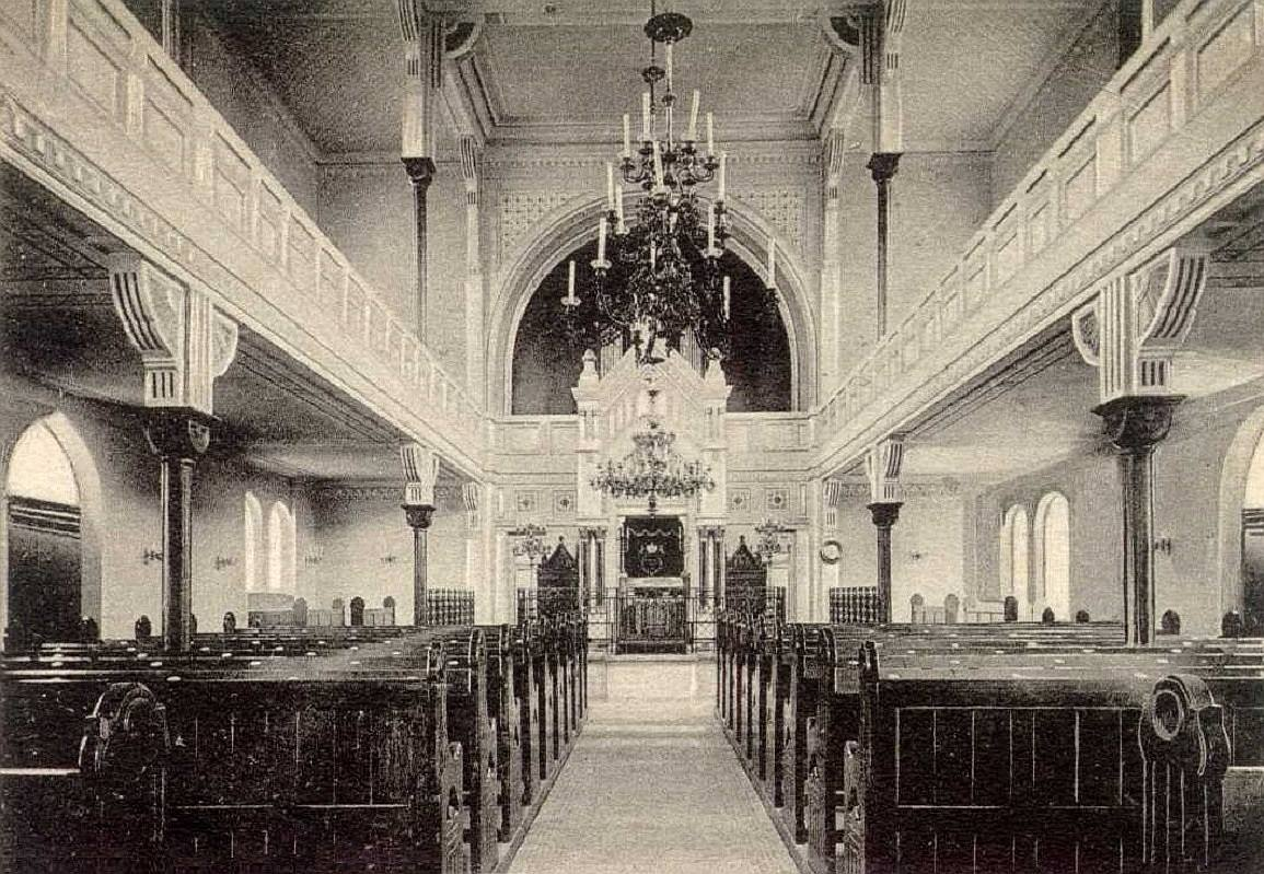 Postcard of Murska Sobota.